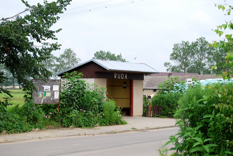 Ruda_bus_stop